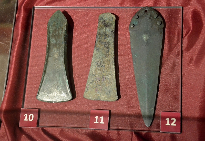 small axe 10.) 2nd m. BC, 11.) late 3rd m.BC, 12.) dagger 2nd m. BC